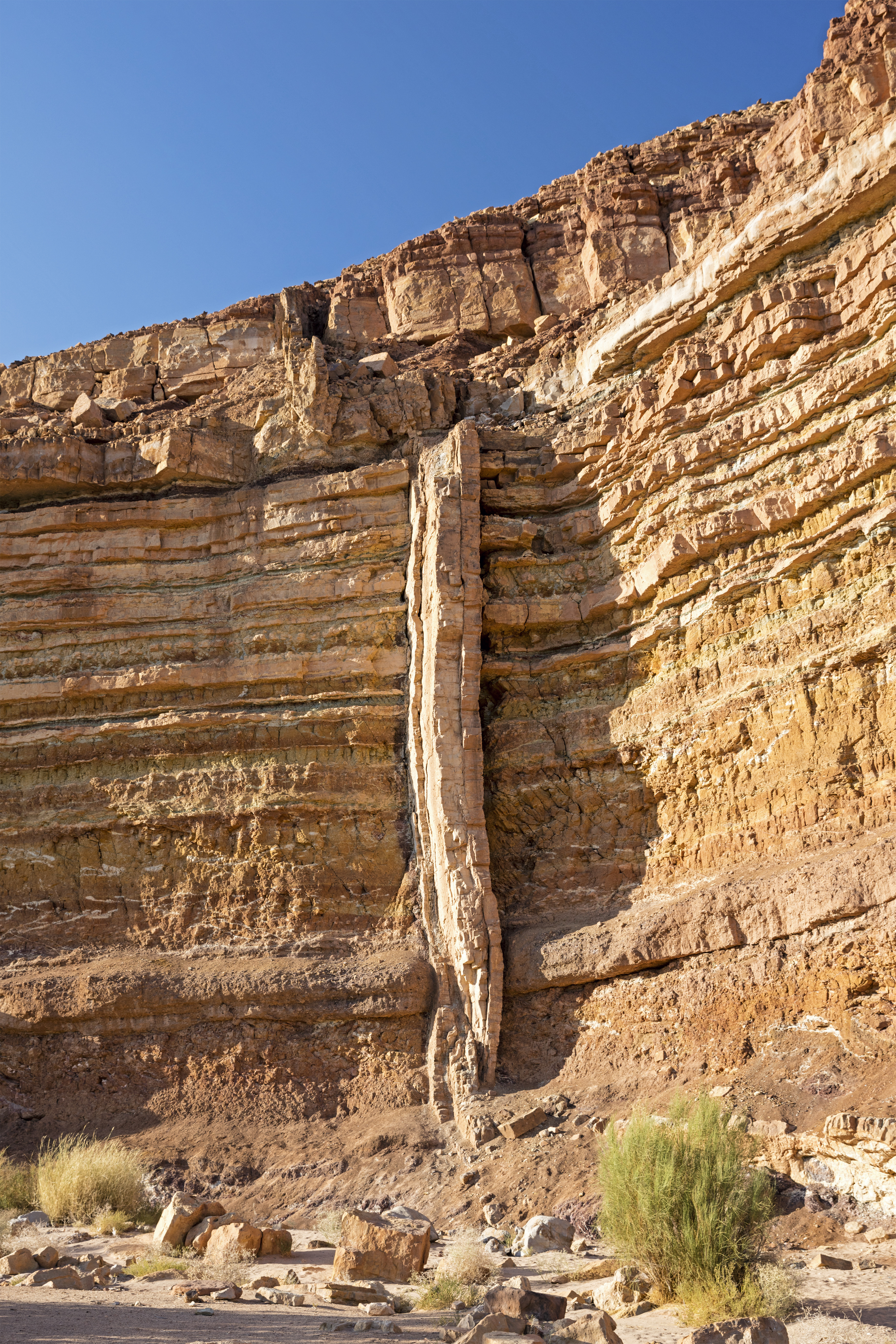 Makhtesh Ramon (Ramon crater), located in Israel’s Negev desert, is a 40 km long crater that varies between 2 and 10 km wide, and up to 500 meters deep. Unlike typical impact or volcanic craters, a makhtesh is created by erosion and may be unique to the Negev/Sinai region. Makhtesh Ramon is the largest of the five in the Negev.The illustration is of a geological dike.